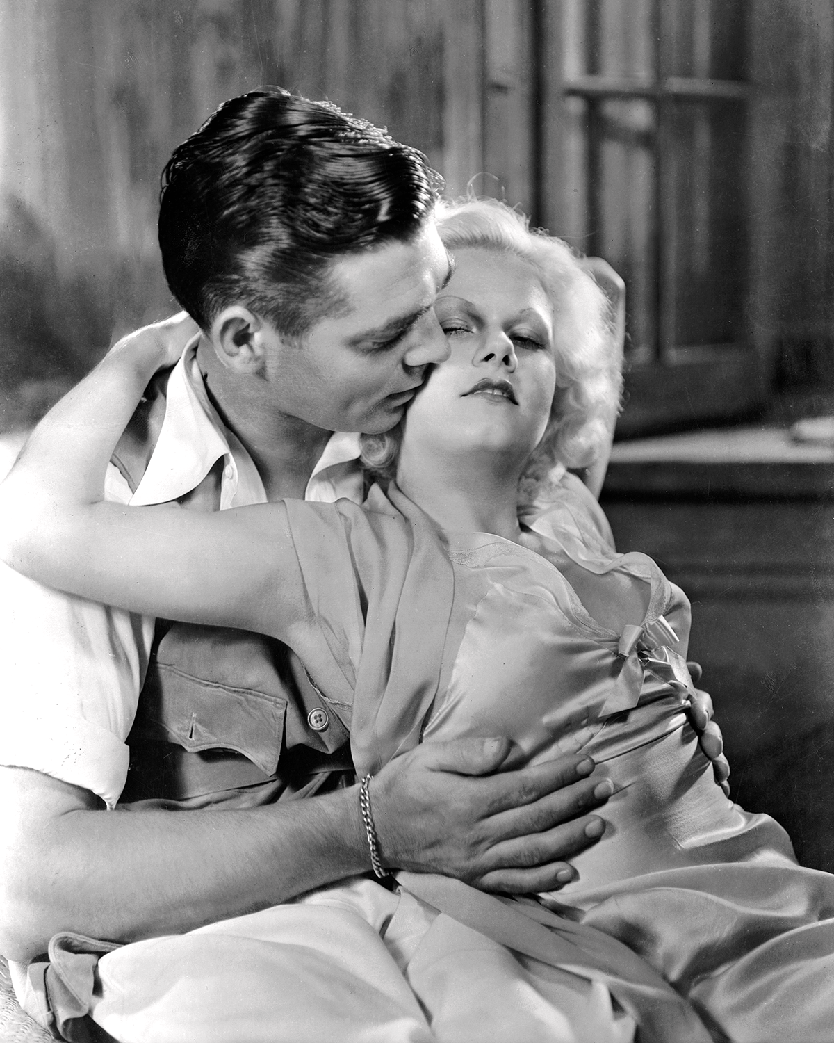 Clark Gable & Jean Harlow publicity photo for the film Red Dust (1932)